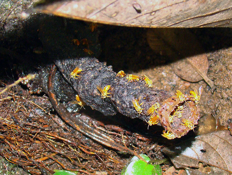 Stingless bees enter a hollow tree via a root in southeastern Nicaragua. Known as Abeja Jicote or Abeja Atarra. In context at